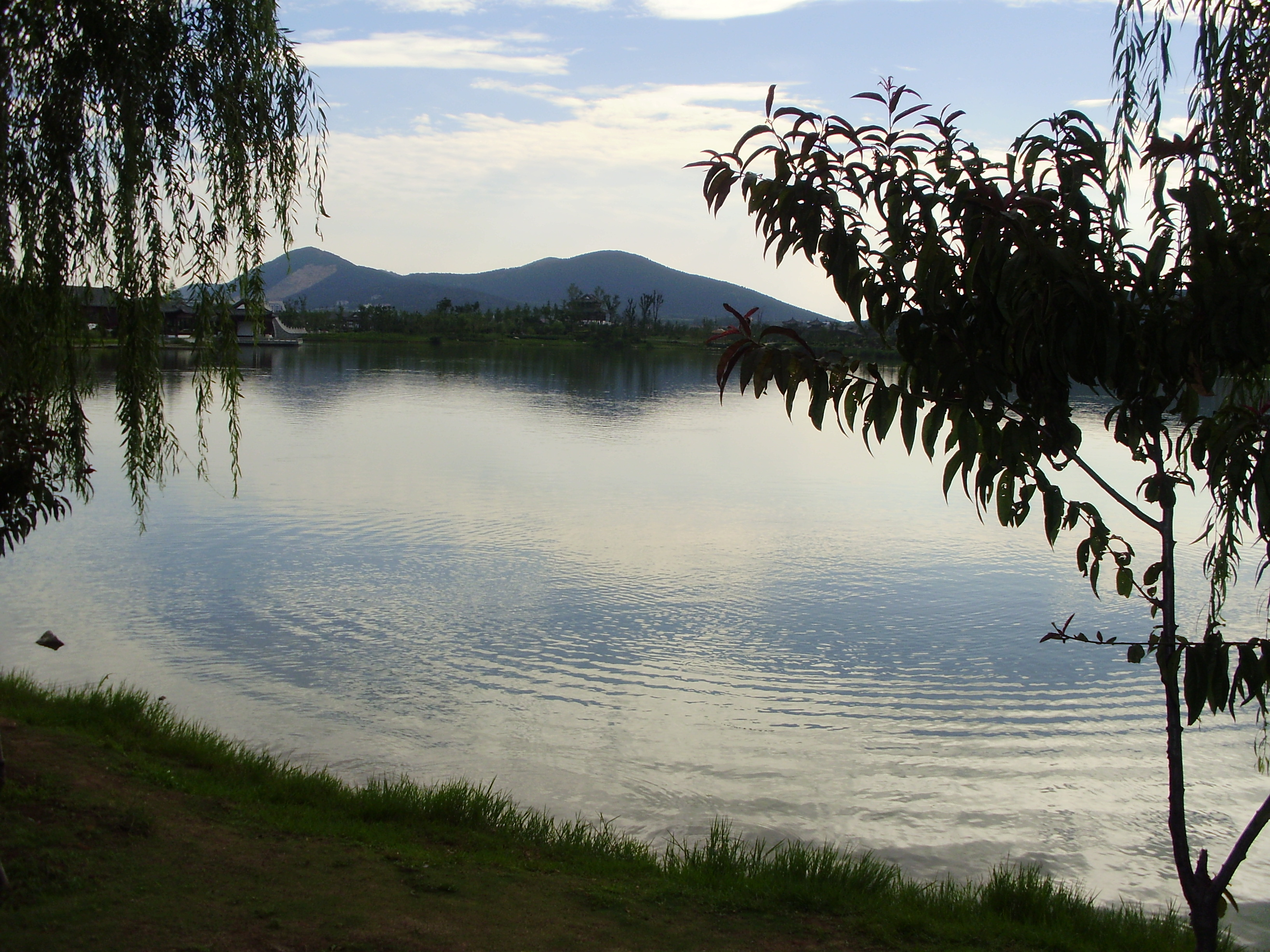 Small South Lake in Xuzhou, China